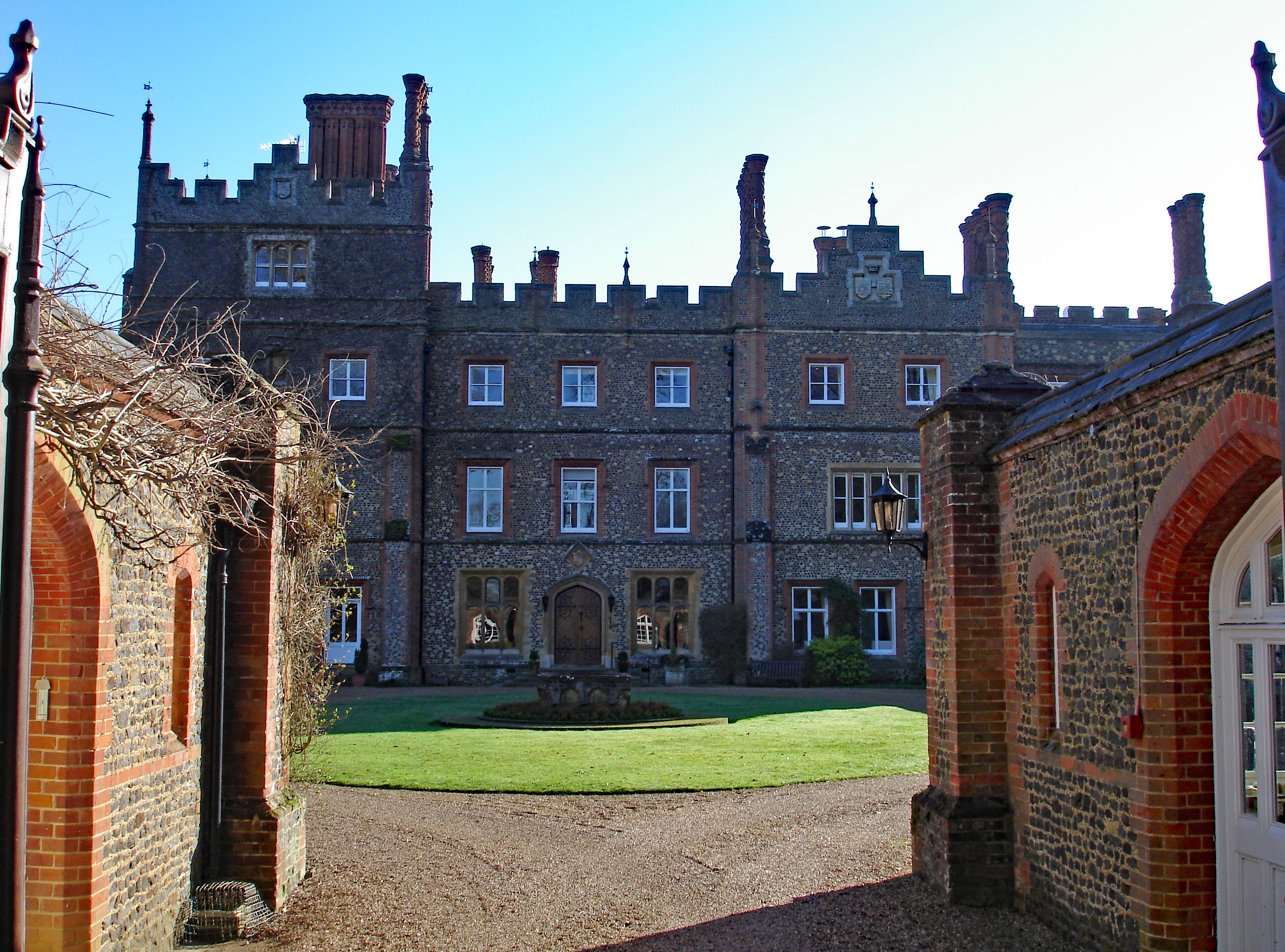 S Knights, my photos, March 2007